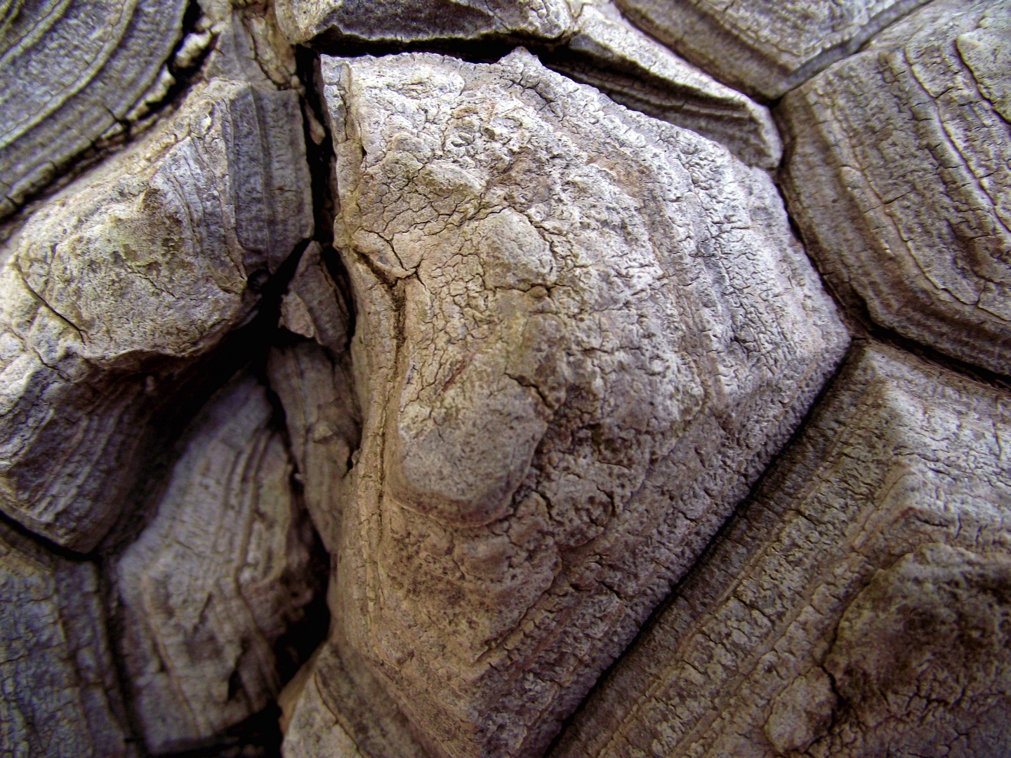 Mexican yam or barbasco de placa; detail